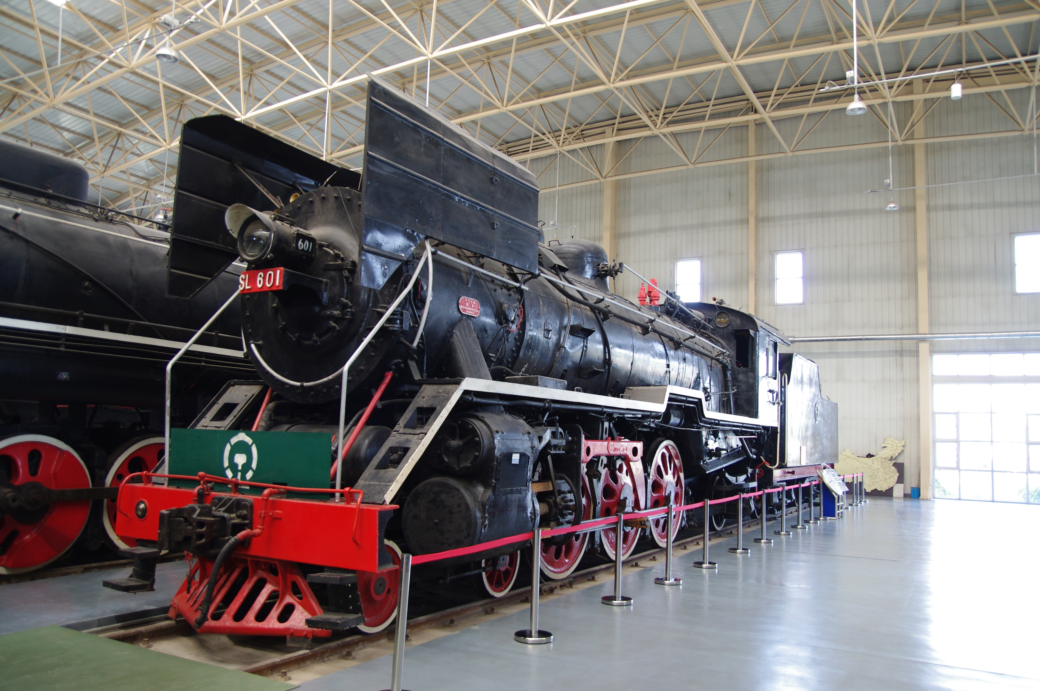 Shengli 6 Steam locomotive 601 at China Railway Museum 勝利6型蒸汽機車601於中國鐵道博物館